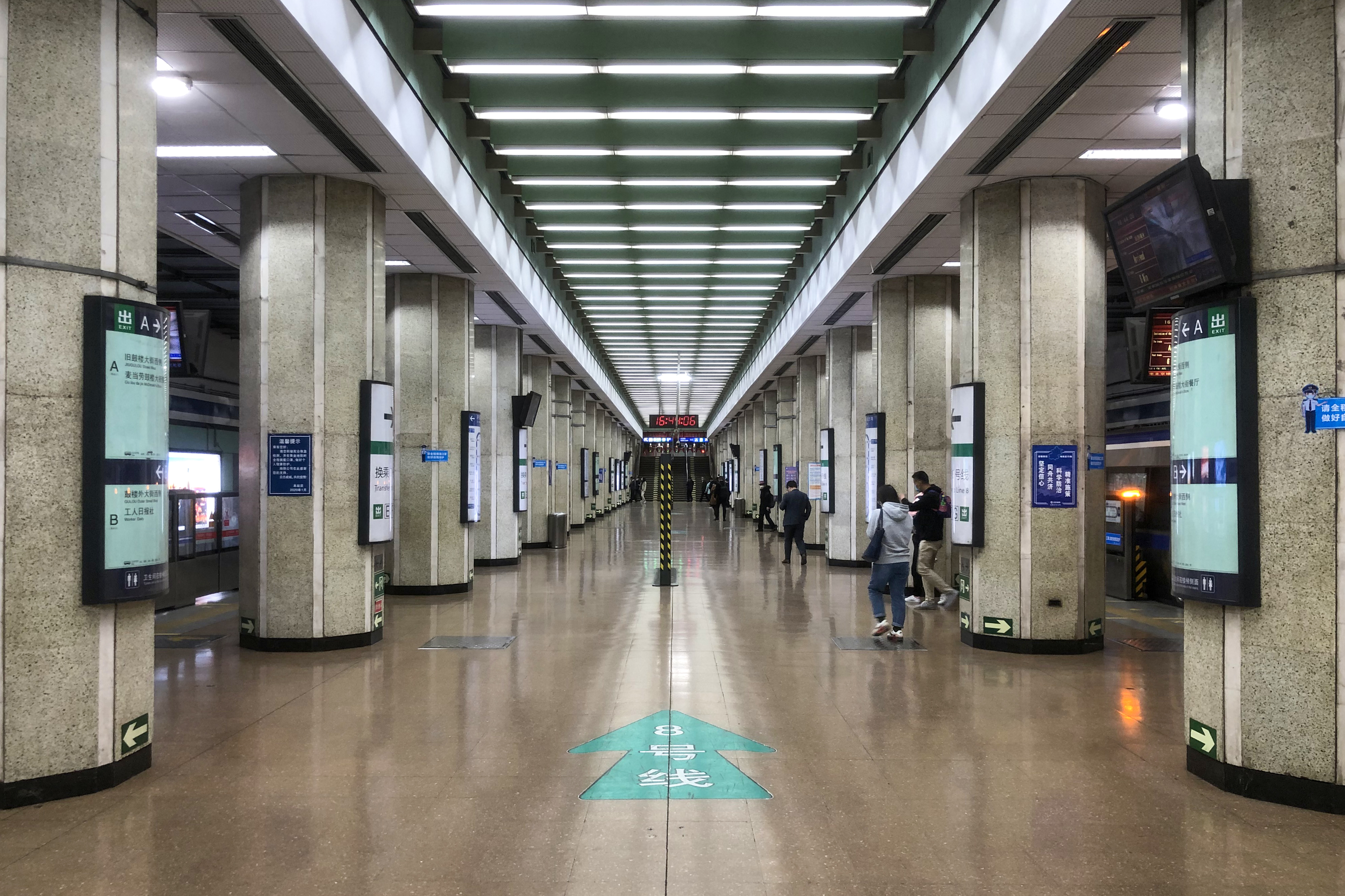 Green ceiling... coinciding with Line 8?